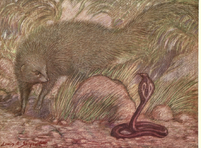 Indian grey mongoose and cobra, as illustrated by Louis Sargent